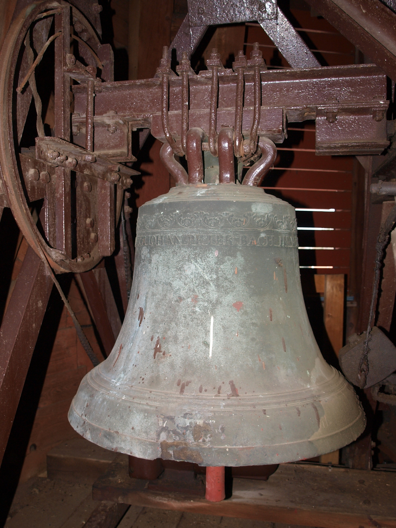 Bell of the protestant church of Erbstadt, cast 1750 by Johann Peter Bach in Windecken